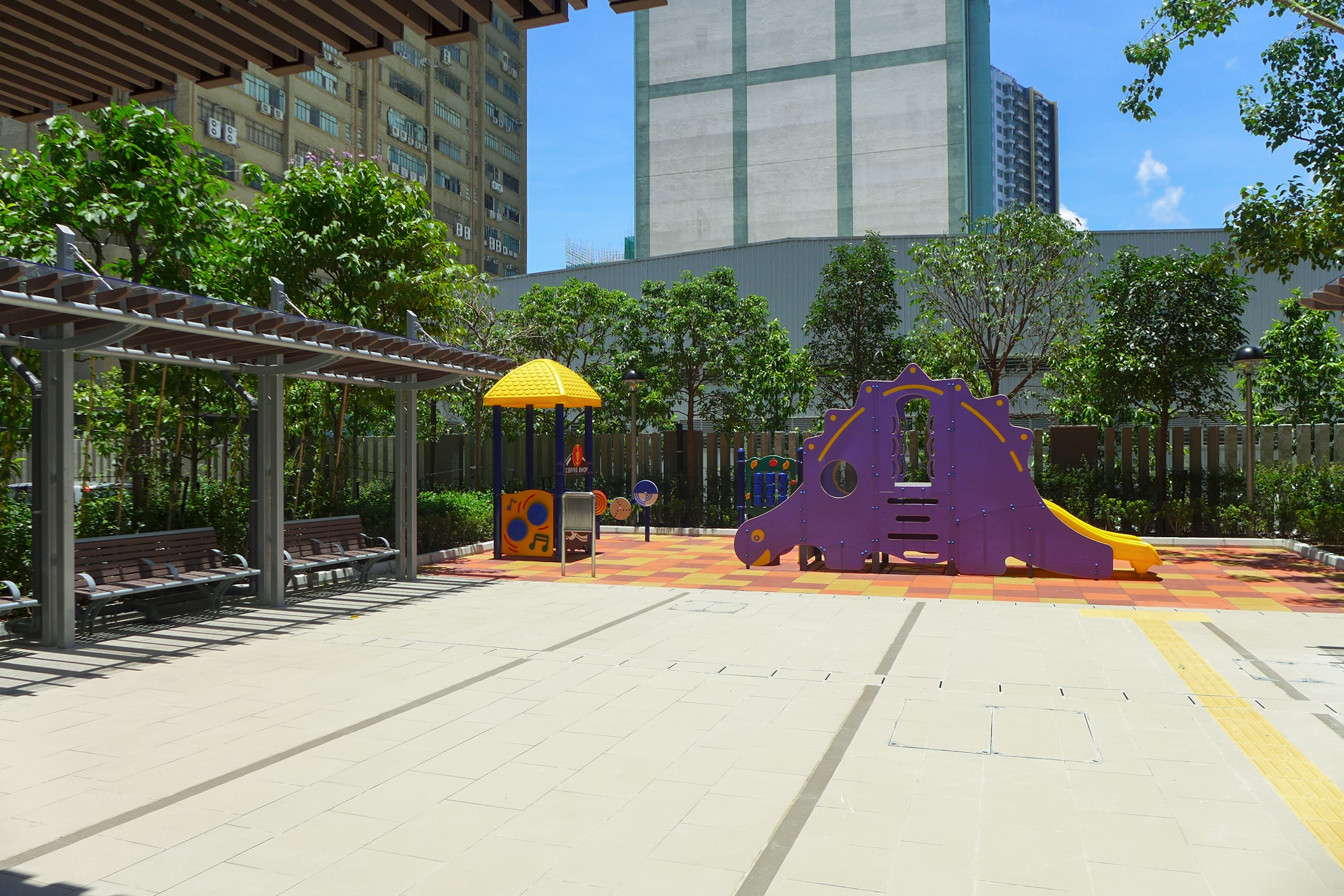 Wang Fu Court Playground